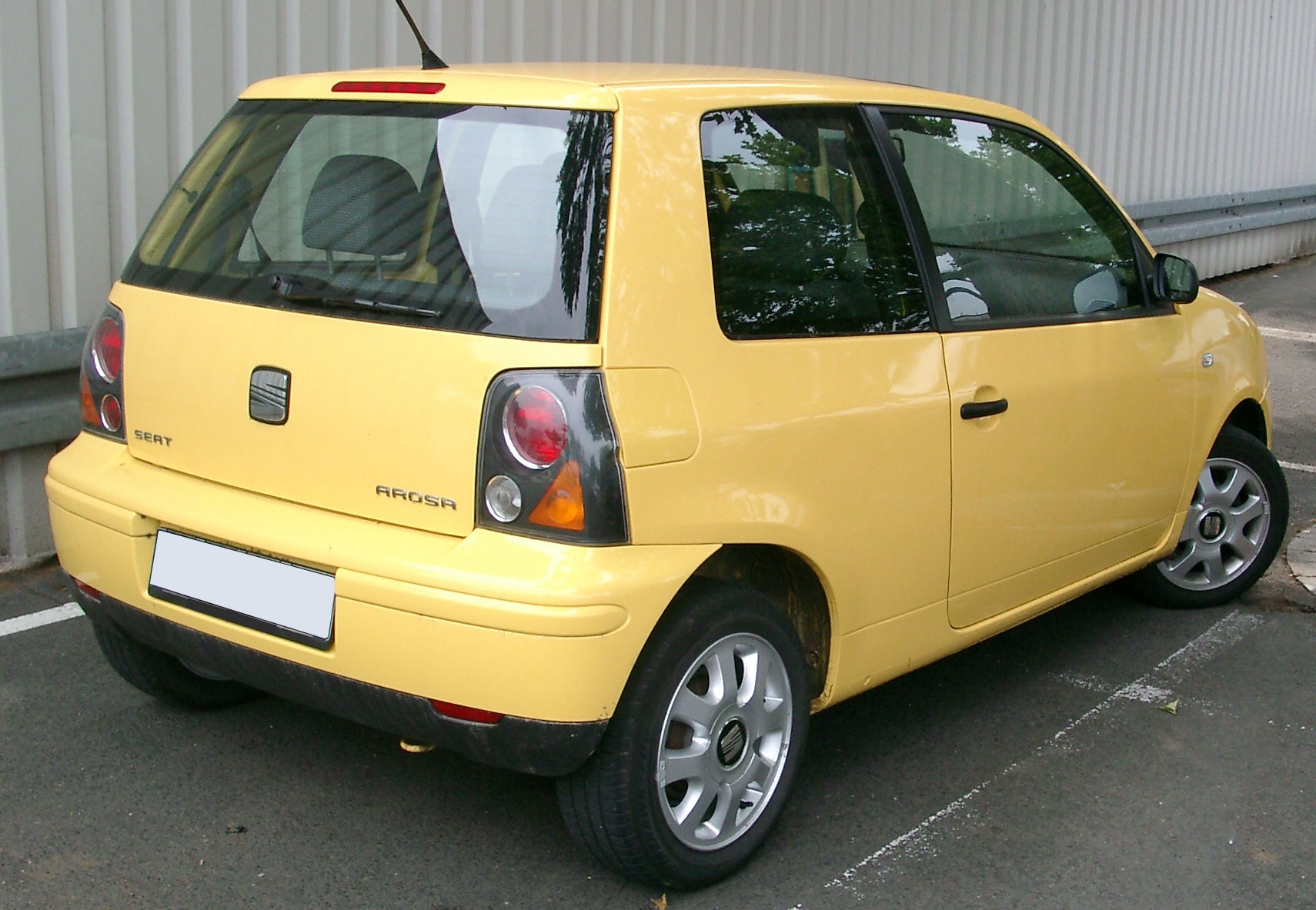 Seat Arosa